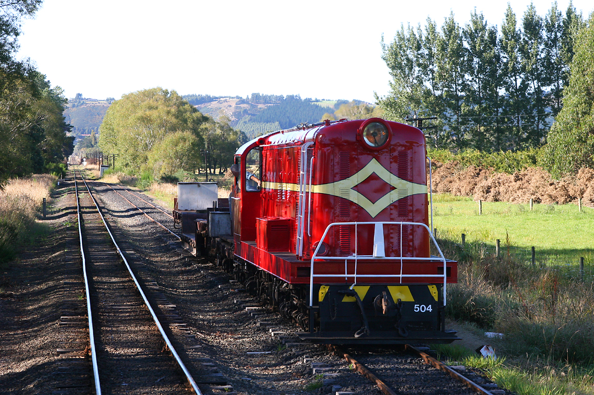 DE Class No 504 at work on the Taieri Gorge Railway